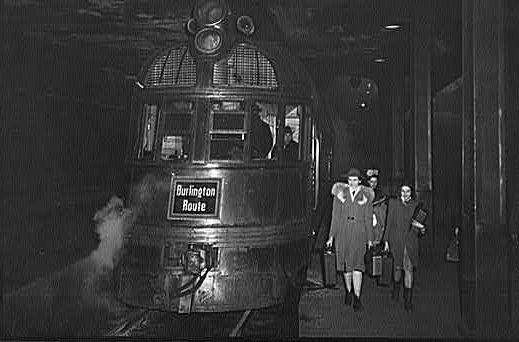 Chicago, Illinois. Passengers coming in on one of the Burlington Zephyrs at Union Station